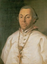 Oil painting of Nikolaus Betscher